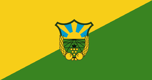 Flag of Vasilevo Municipality, Macedonia.